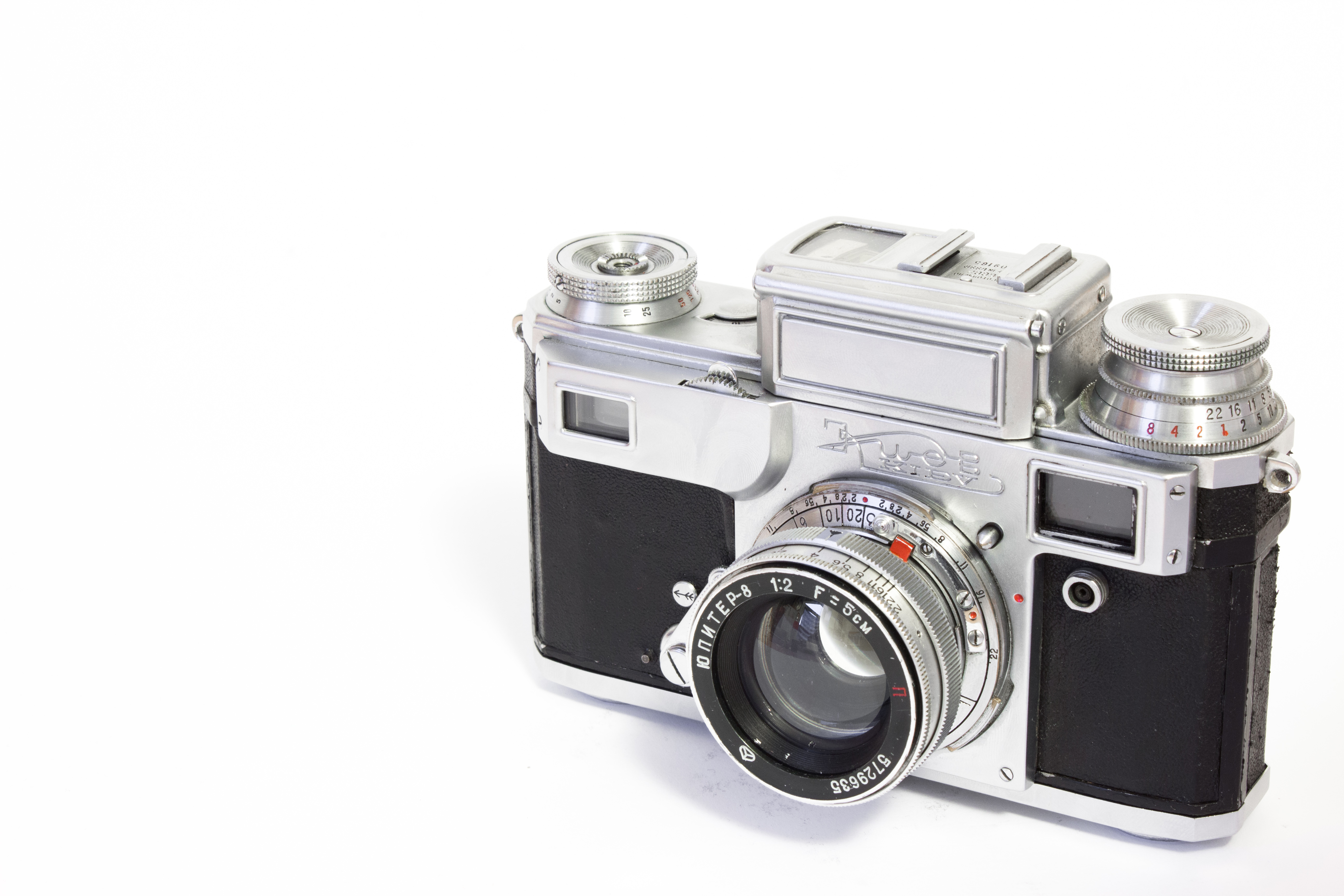 Home studio shot of a russian Kiev 3 analog rangefinder camera with its original Jupiter-8 50mm f2 lens.